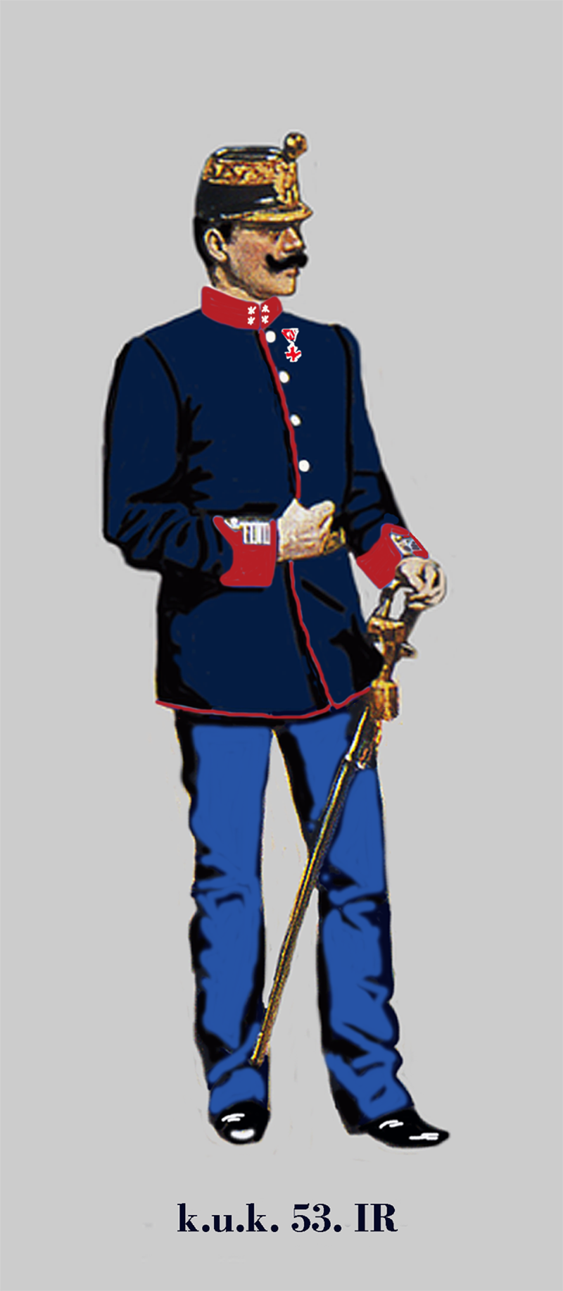 1st Lieutenant of the Austria-Hungarian (k.u.k.). 53rd hungarian Infantry Regiment in Parade dress 1914